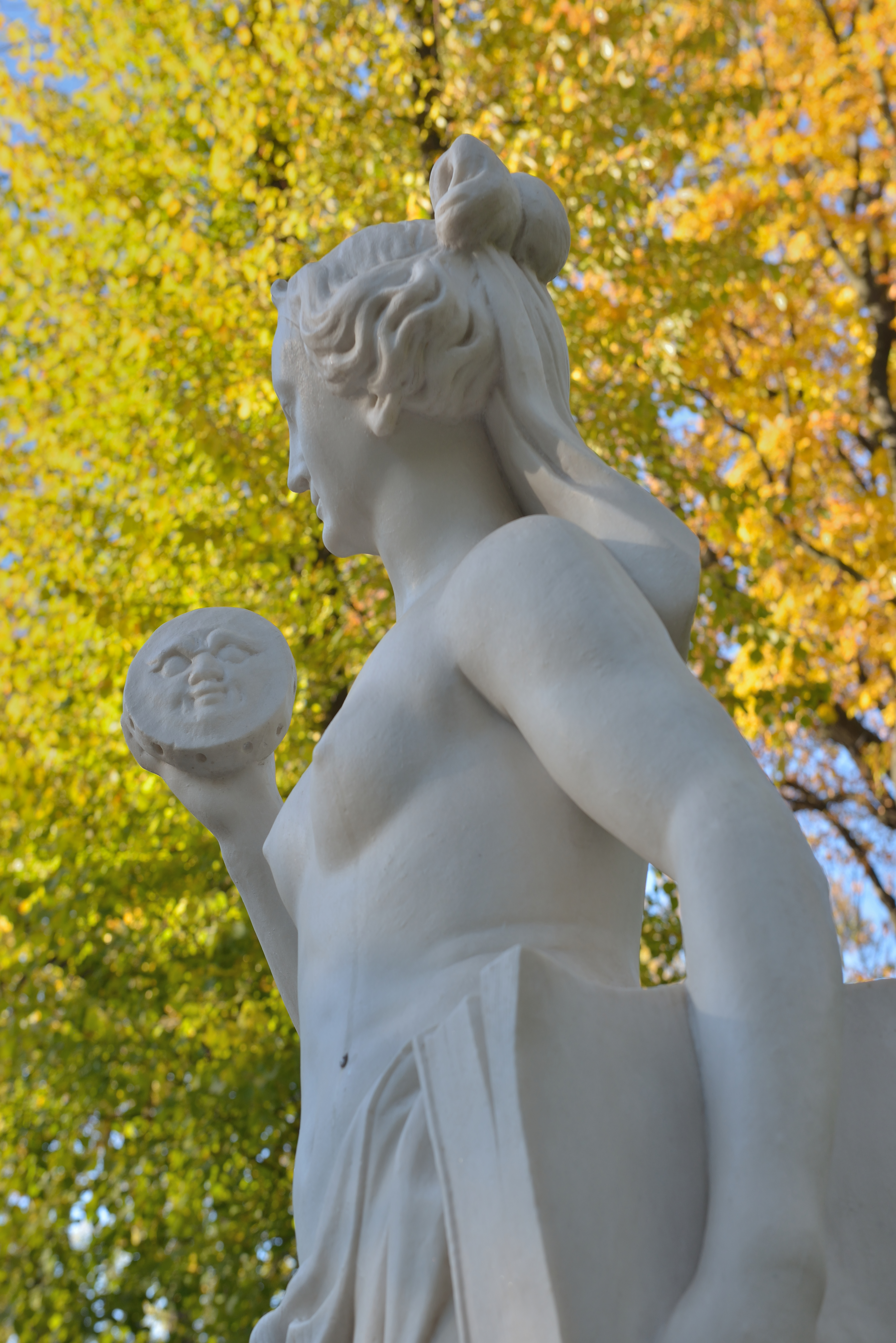 Marble statue allegory of truth in the Summer Garden in Saint Petersburg